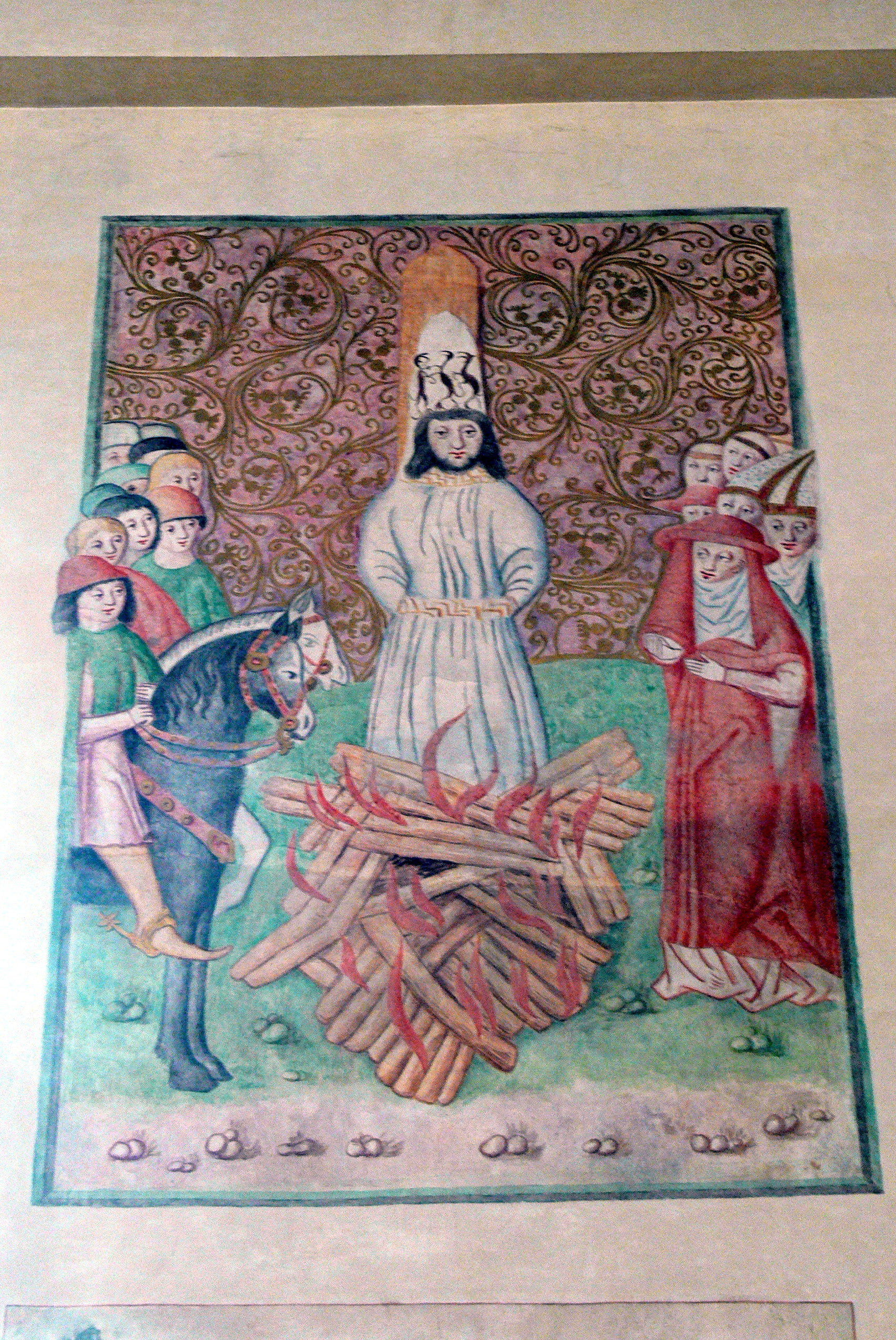 Bethlehem chapel ( Prague ). Reproduction of a painting showing the execution of Jan Hus.